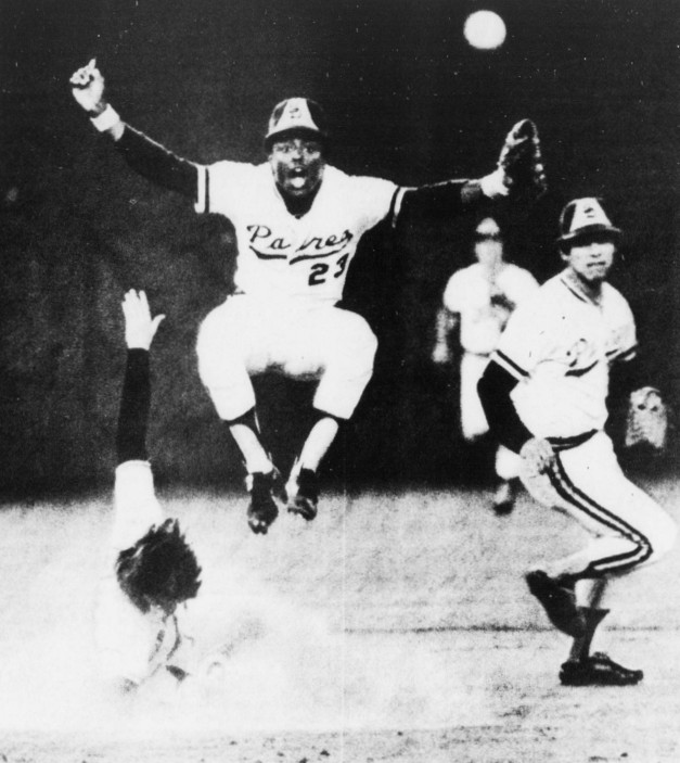 Professional baseball player Tito Fuentes (#23)